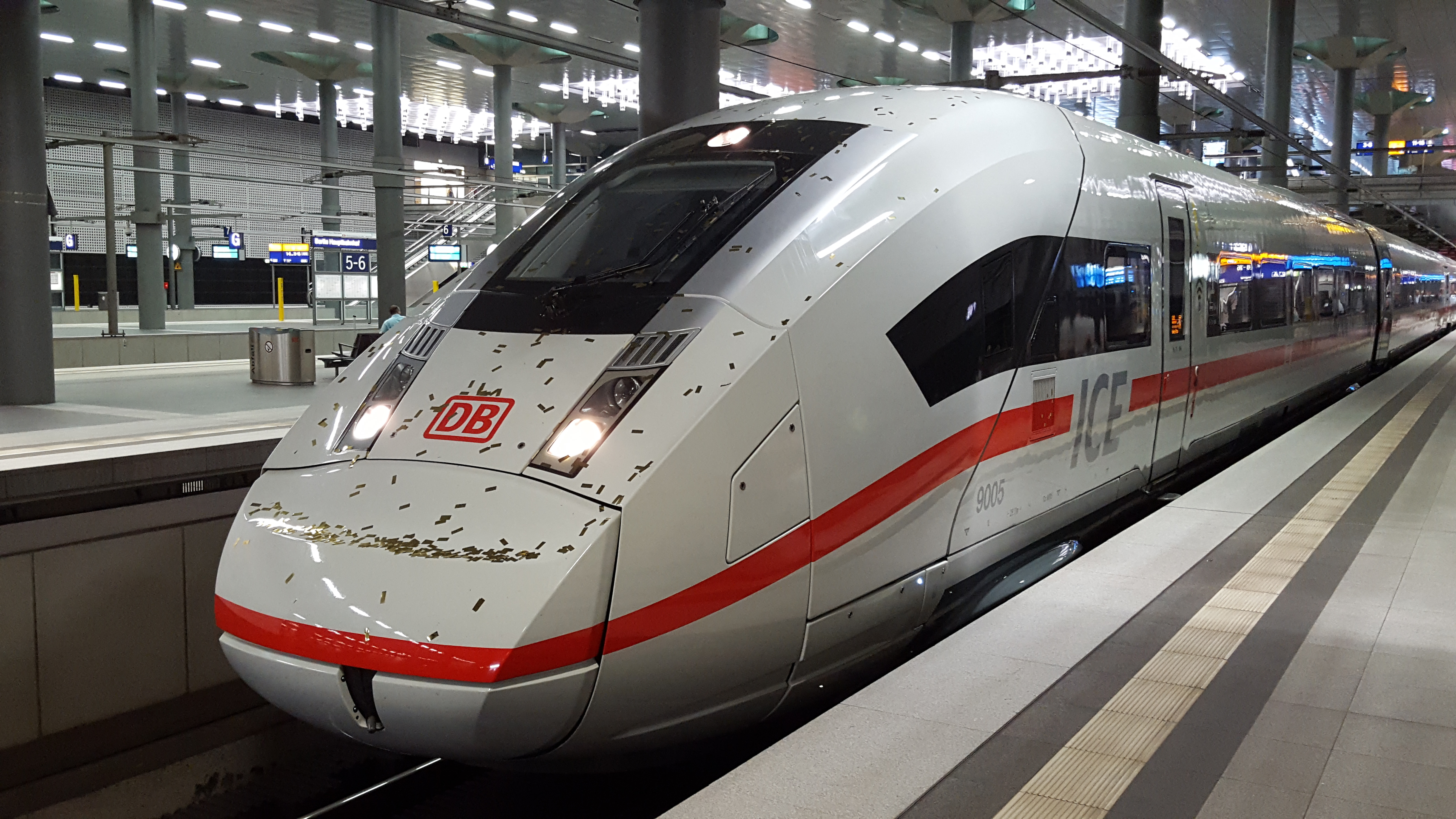 ICE 4 presentation at the Berlin Central Station, September 14, 2016